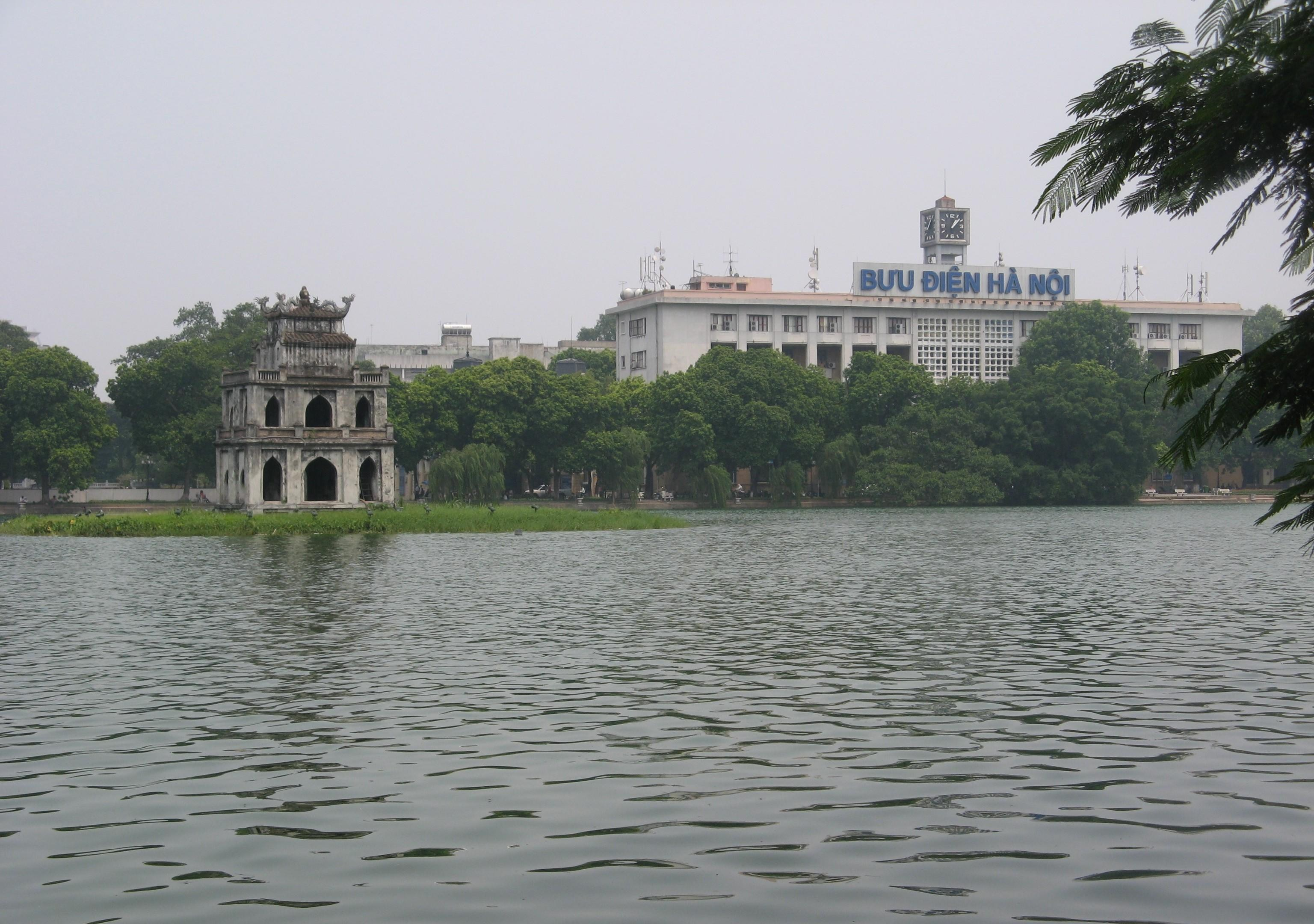 Turtle tower on Hoan Kiem Lake